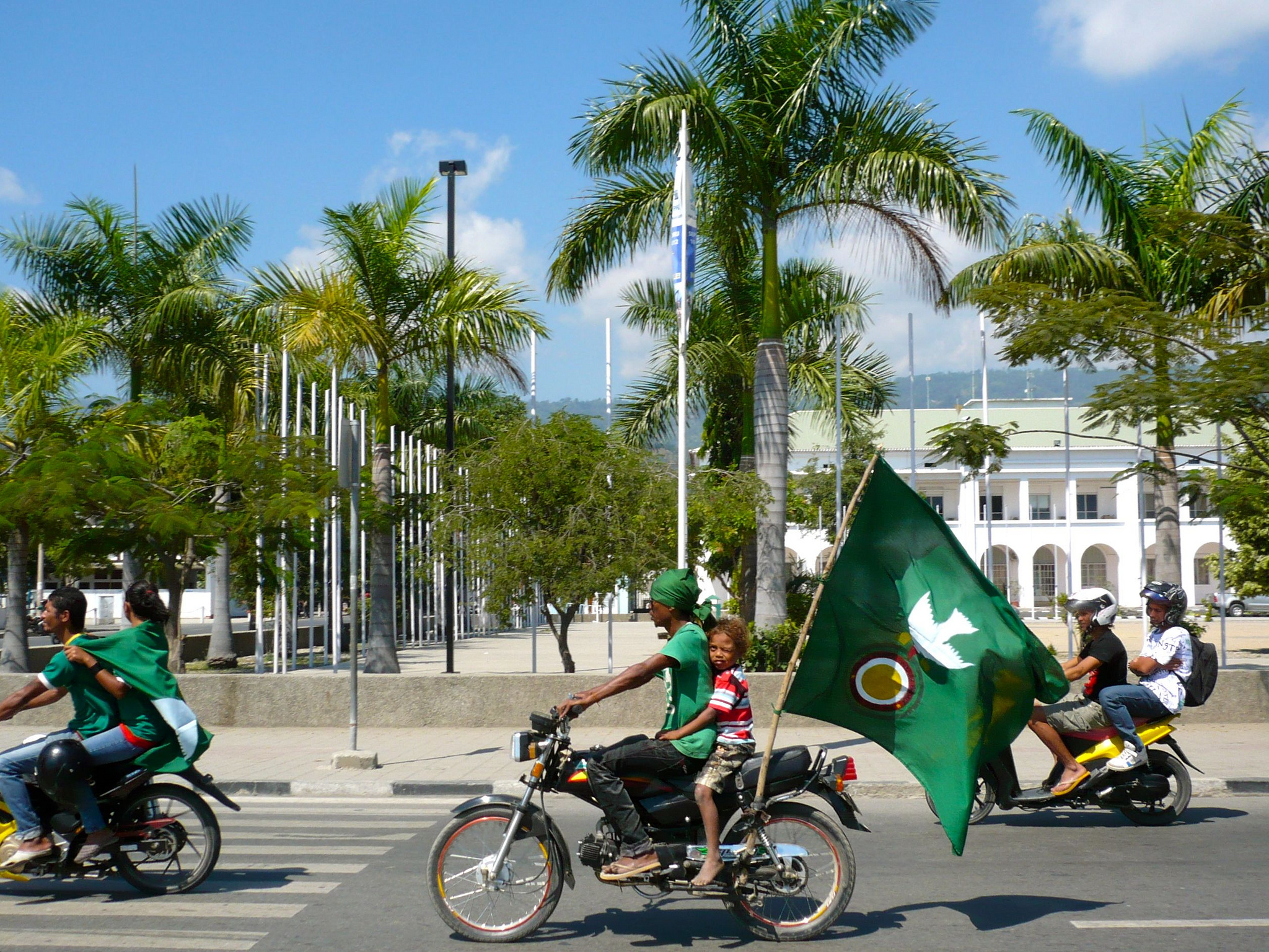 KHUNTO Campaign Dili 2012: Campaign of the political party KHUNTO during the parliamentary elections 2012 in Timor-Leste